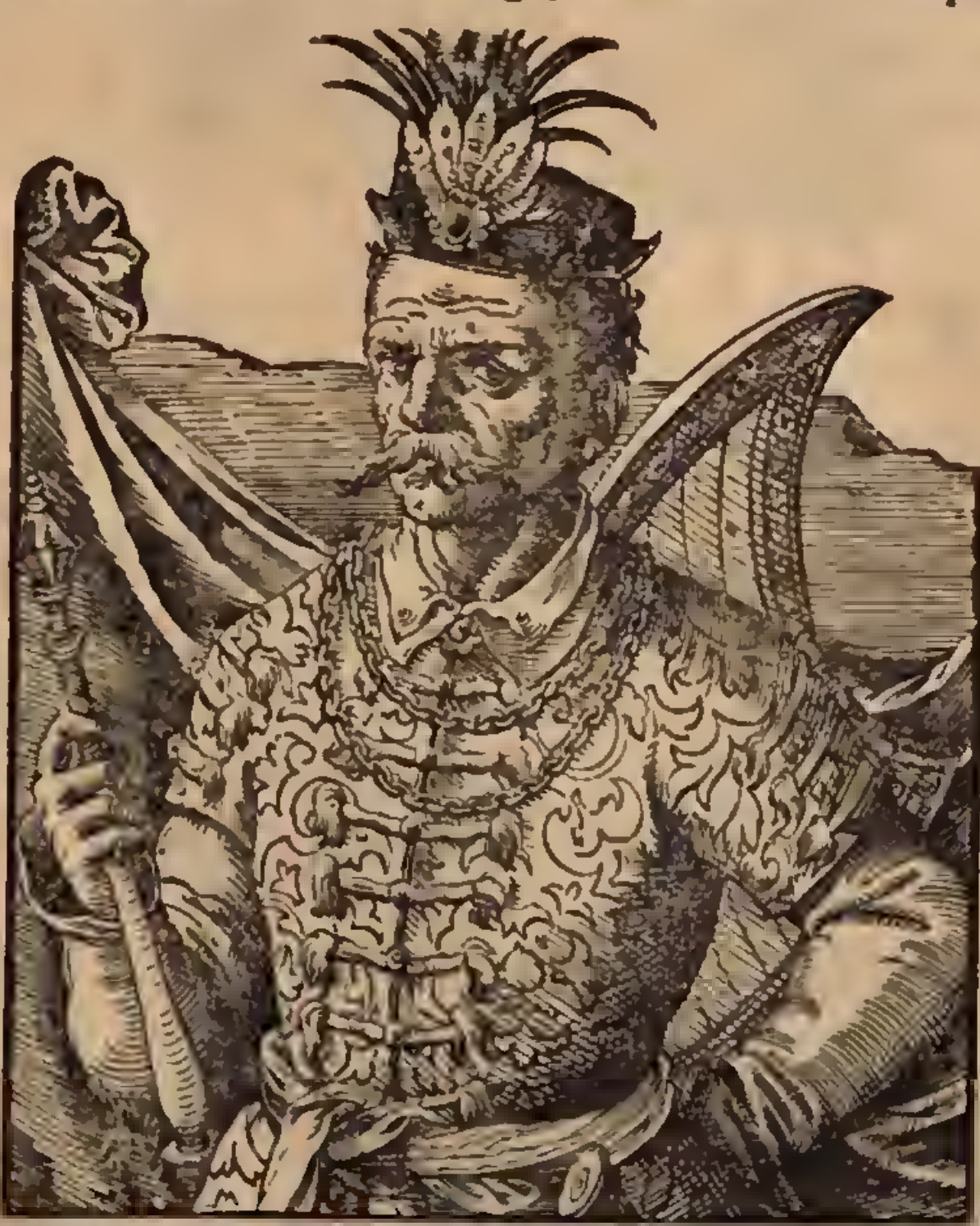 Engraving by Jost Amman from Chronicorum Turcicorum 1578